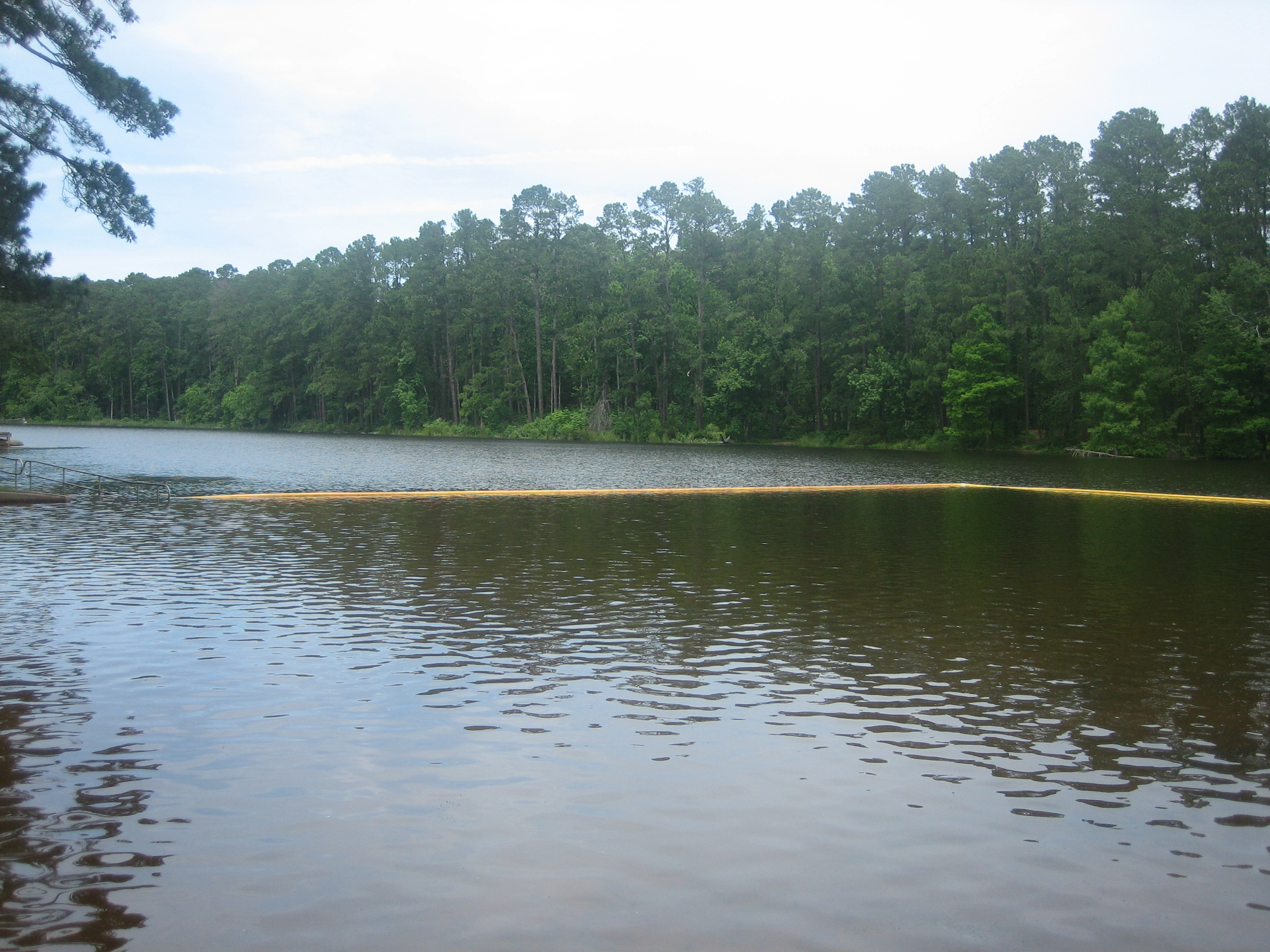 I took photo on May 27, 2009.